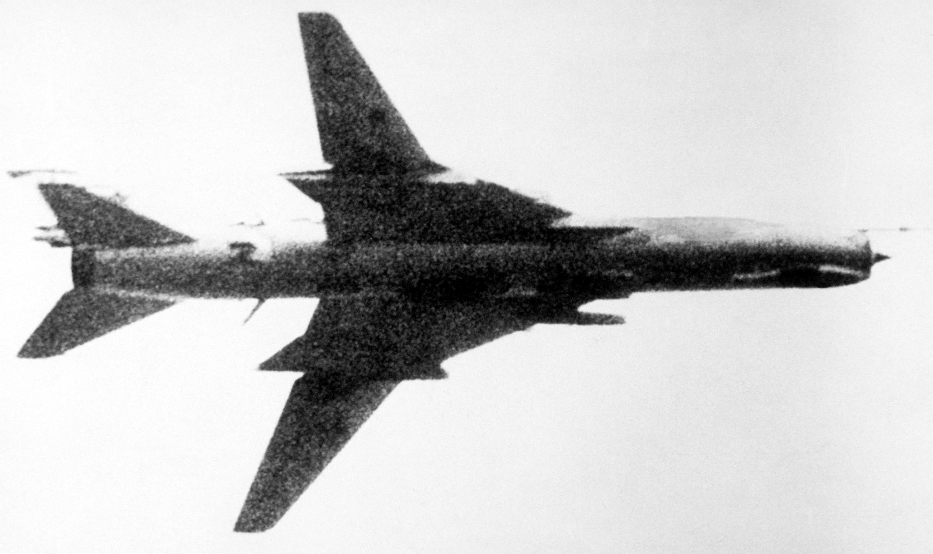 A view of a Soviet Su-17M2 Fitter fighter-bomber.